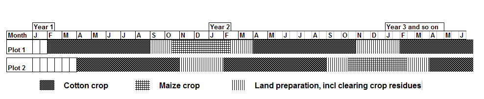 This graph shows the cropping pattern at Bura in a graph. I did this because the crop rotation at Bura is difficult to understand for outsiders.